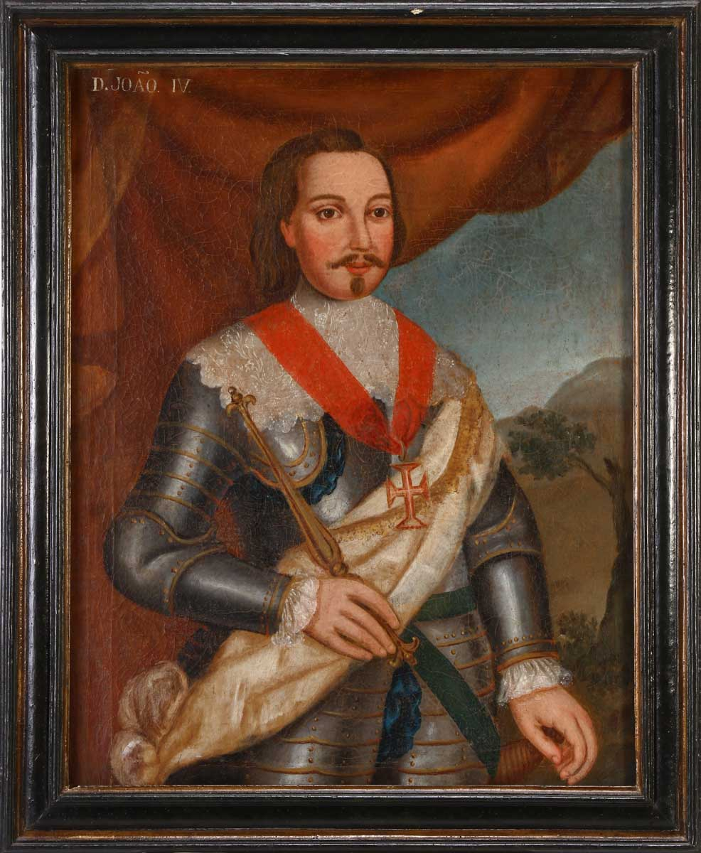 John IV of Portugal